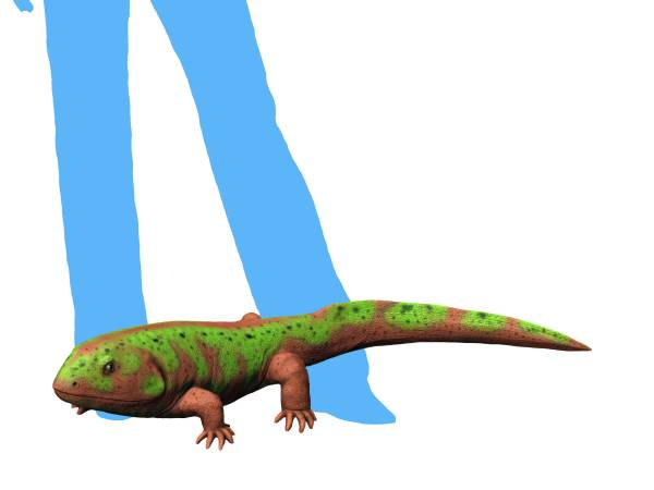 Life reconstruction of Pederpes finneyae